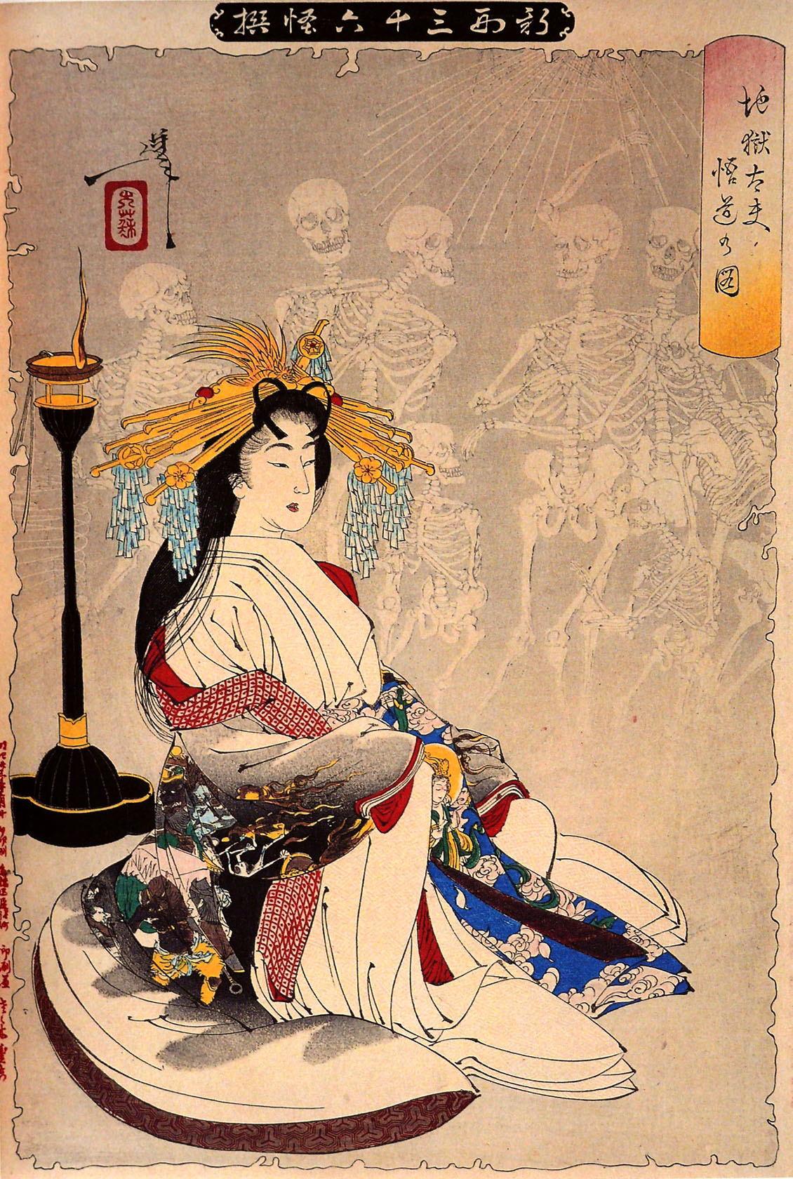 Tsukioka Yoshitoshi, The Enlightenment, February 1890. From the Thirty-six Ghosts series. 9.25" x 14.25". The print depicts Jigoku-dayū, a former courtesan, who is shown the errors of her past occupation by a parade of ghost courtesans.